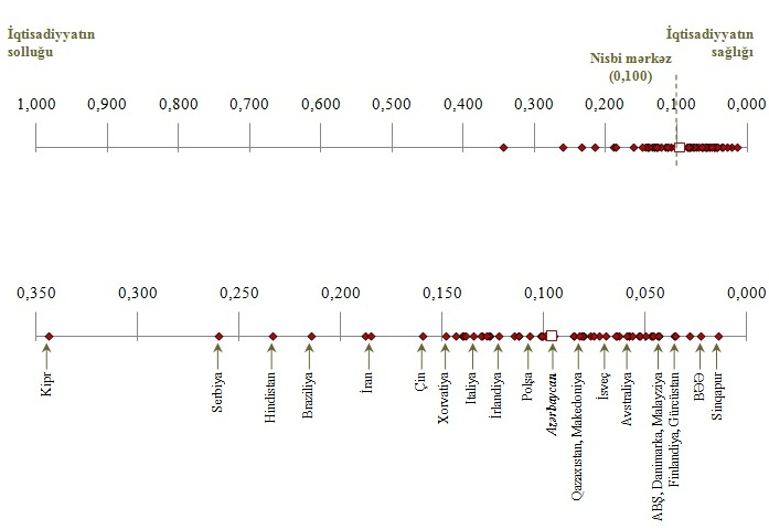 Licens Graph 2015